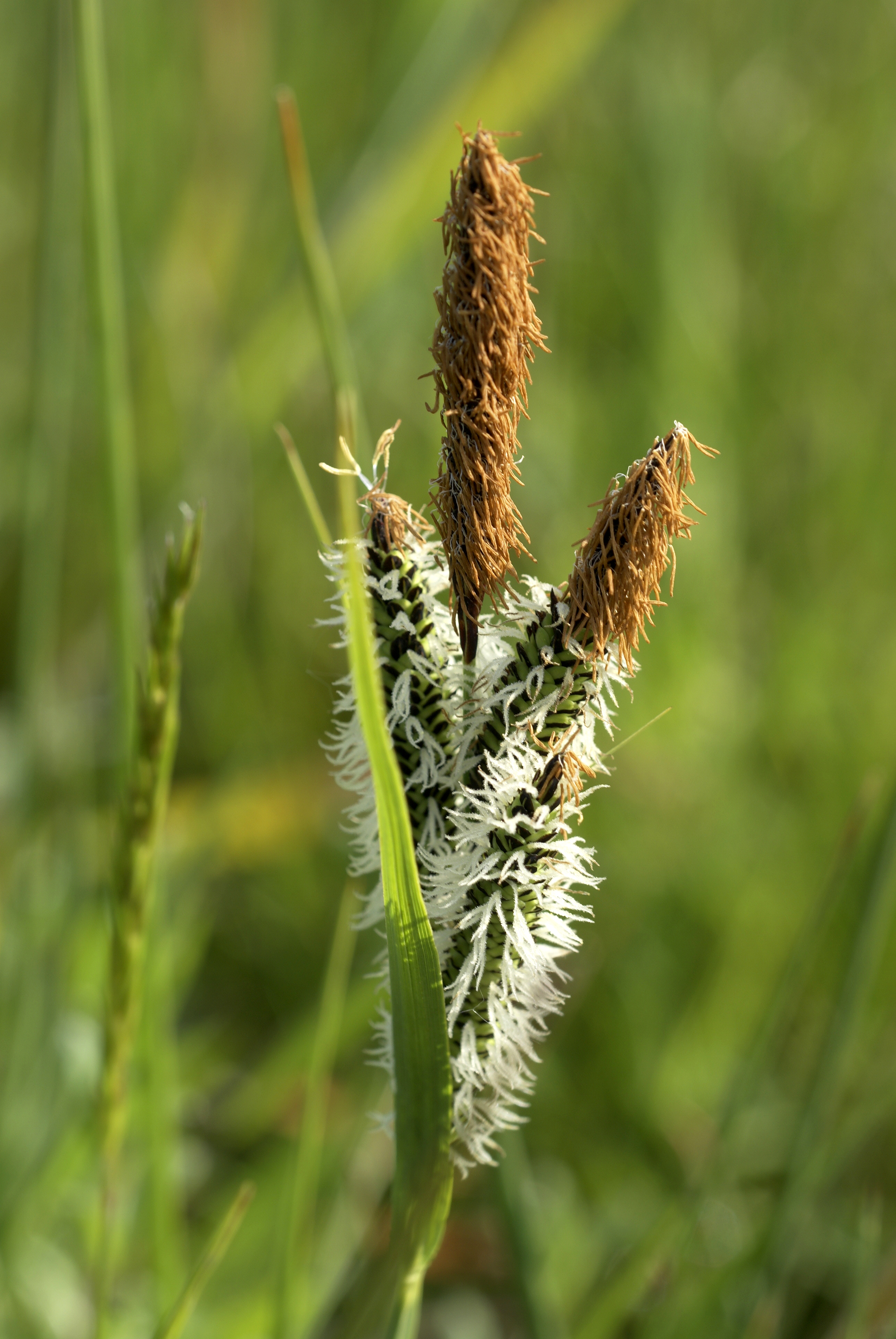 Tufted sedge, inflorescence at Leiemeersen, Oostkamp, Belgium